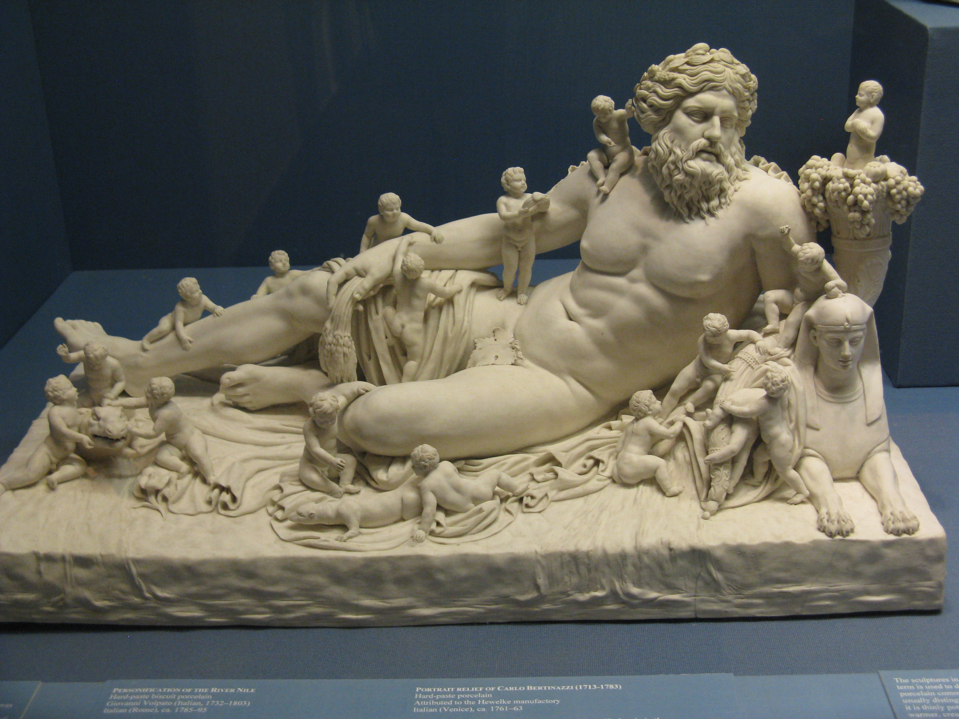 Allegory of the river Nile at the Metropolitan Museum of Art. Replica by Giovanni Volpato (1732-1803) of ancient original in the Vatican Museum. Hard-paste biscuit porcelain